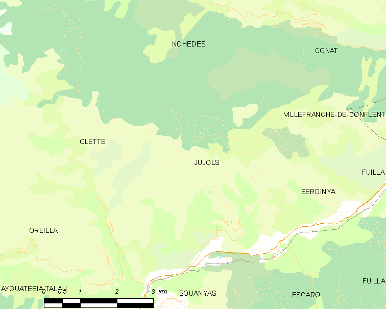 Map of French municipality